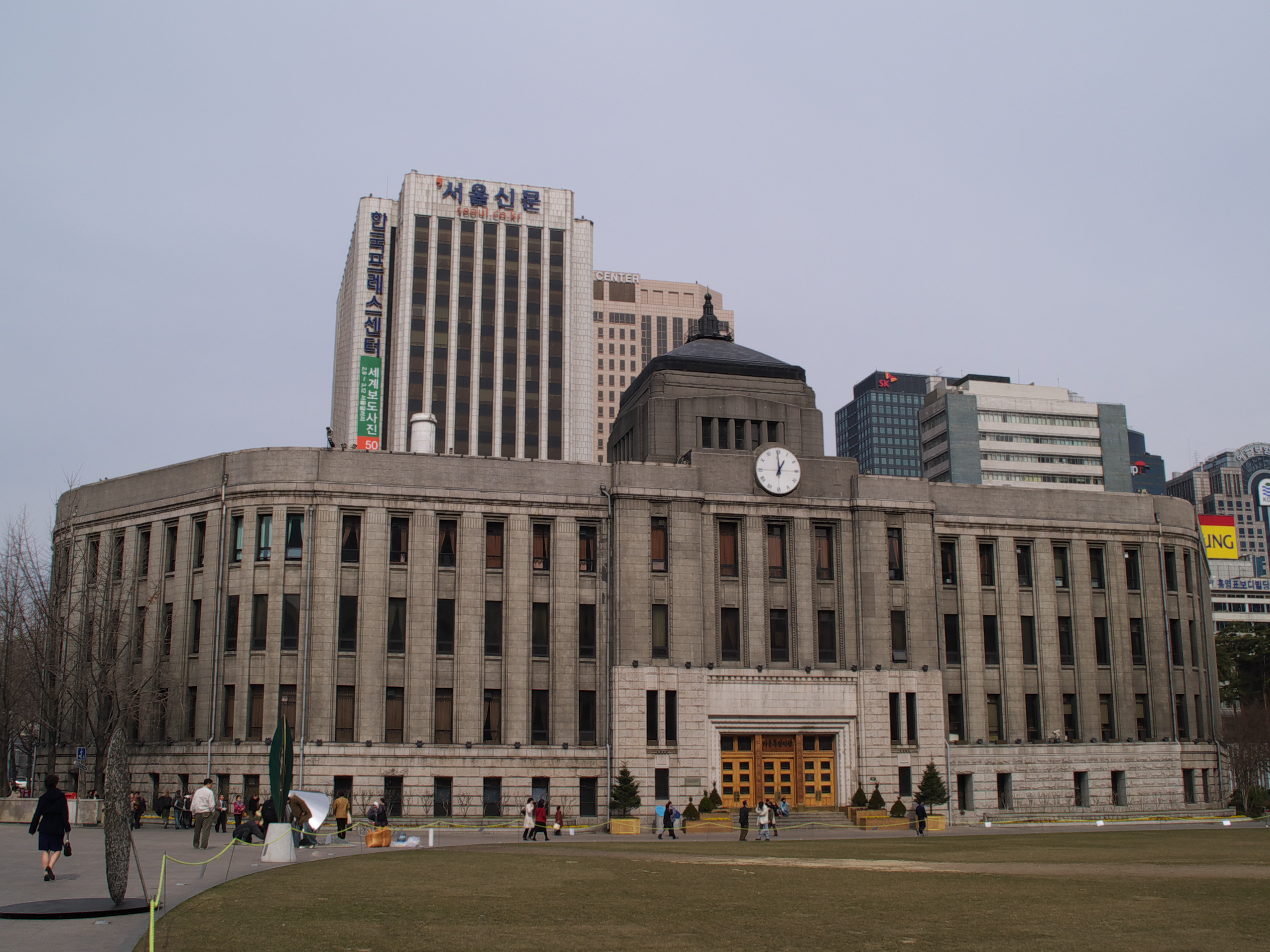 Seoul City Hall in Korea. Built during Japanese rule of Colonial Korea.